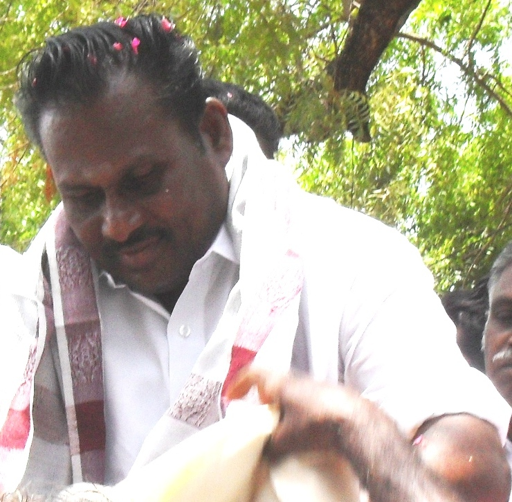 M.L.A. of Srivaikundam constituency thoothukudi district